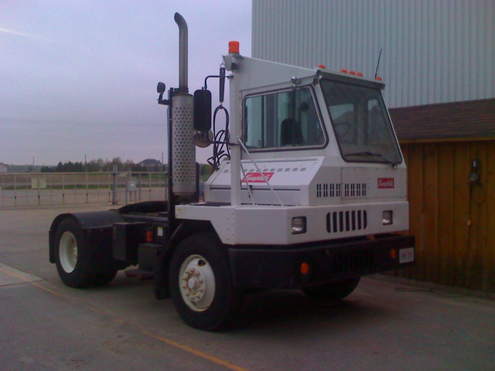 Ottawa terminal tractor painted in Campbell's Soup colours. Used for on site movement of semi-trailers.